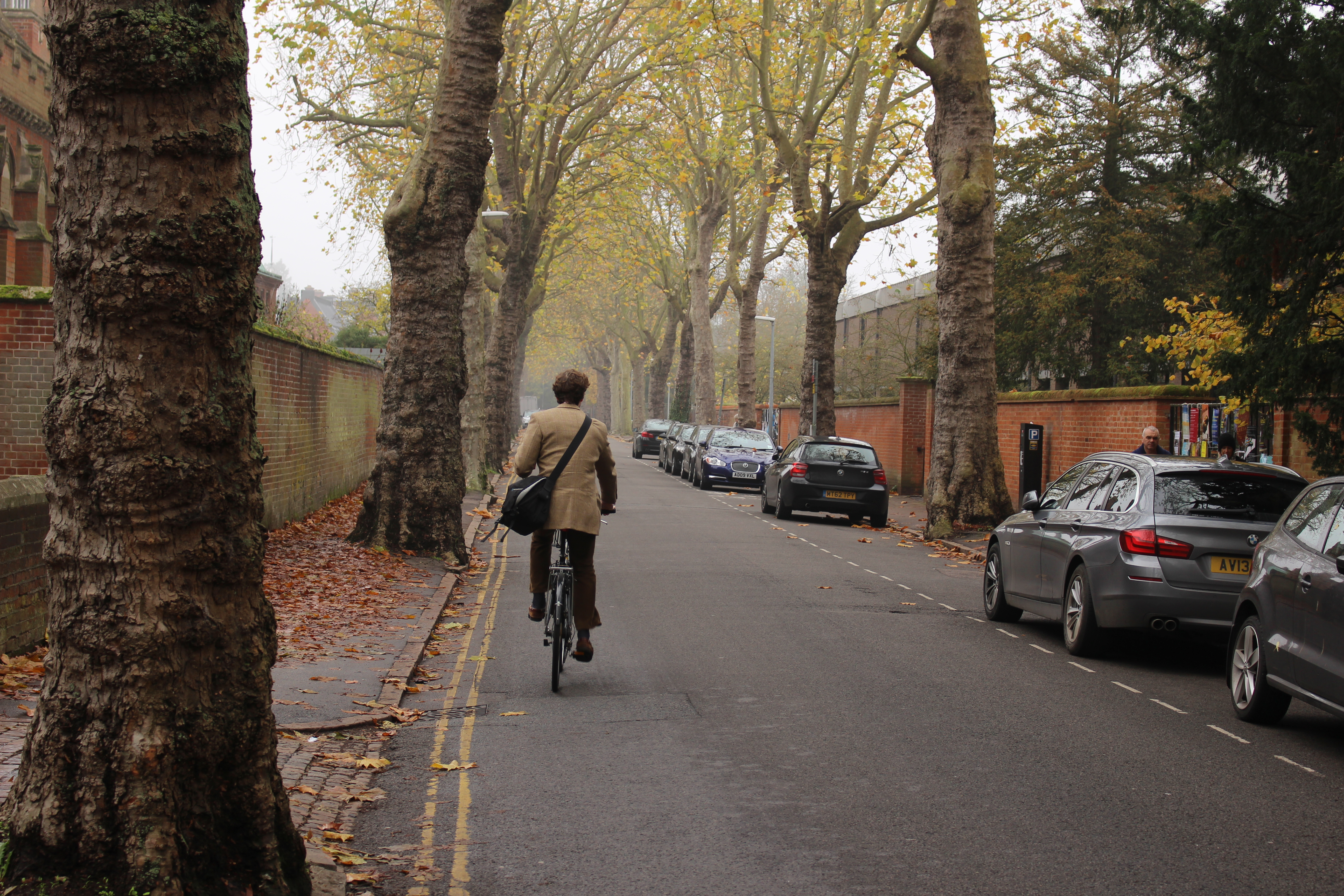 A view of the Sidwick Avenue in Cambridge near Ridley Hall.